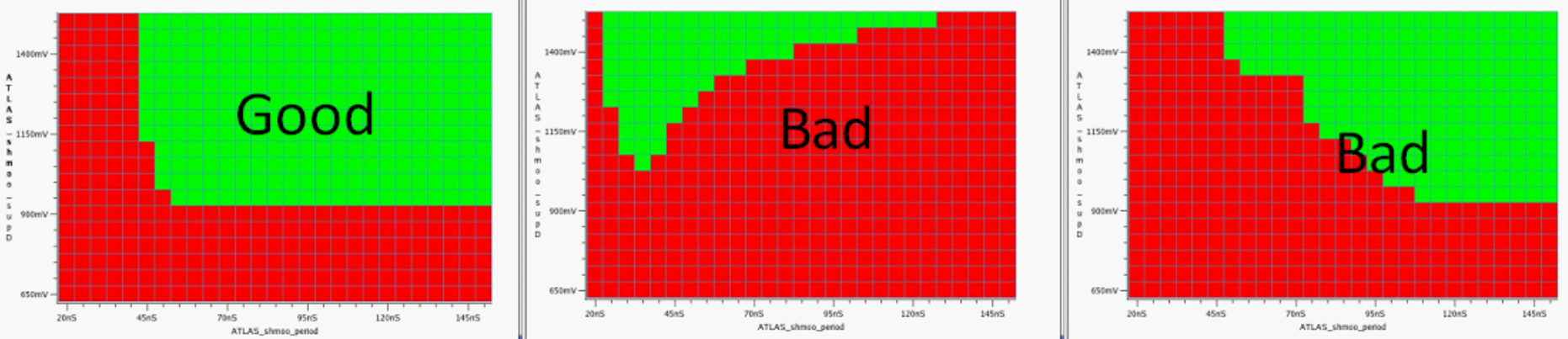 Qualifying devices in a test bed using Shmoo plots